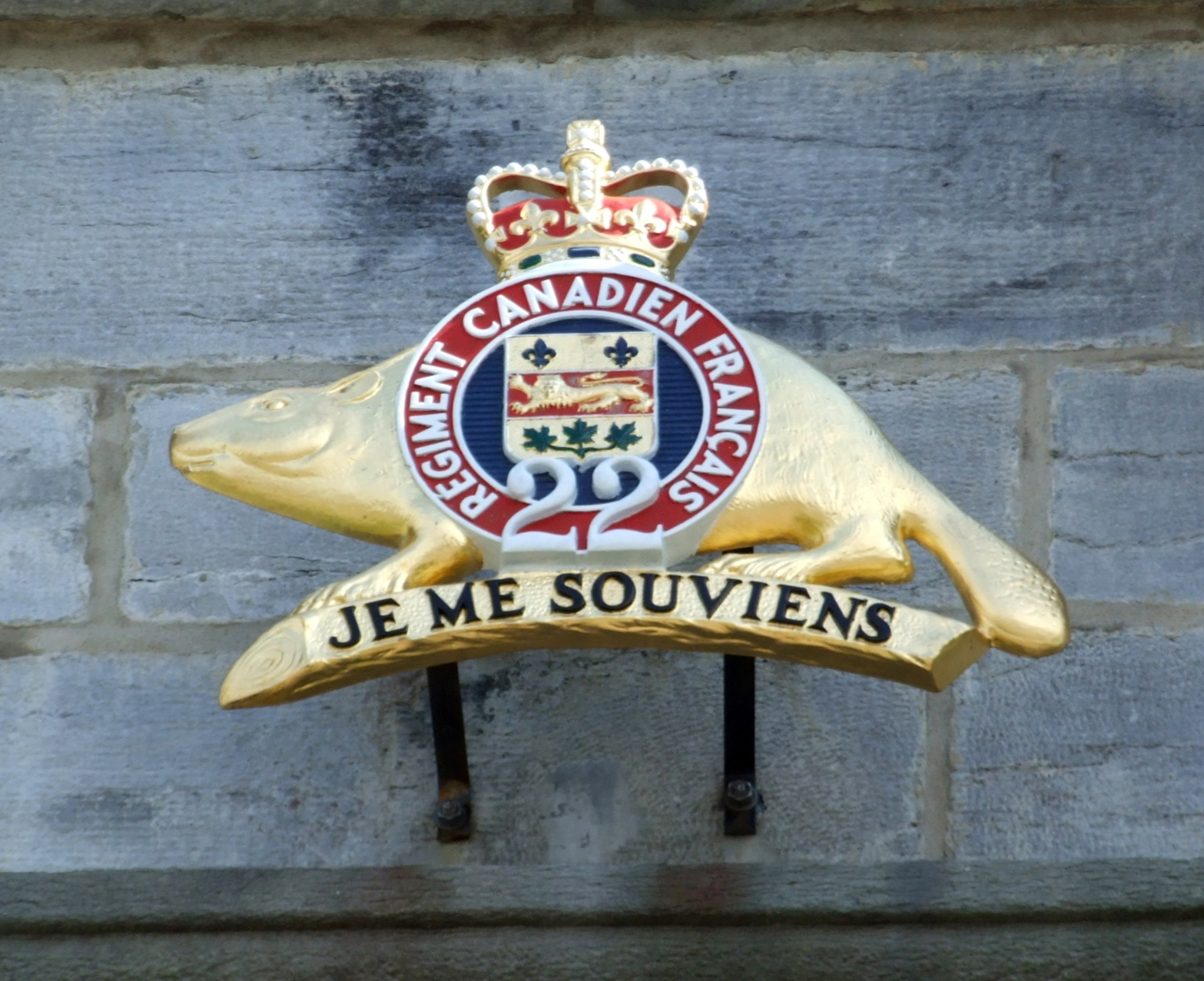 Quebec city, CANADA